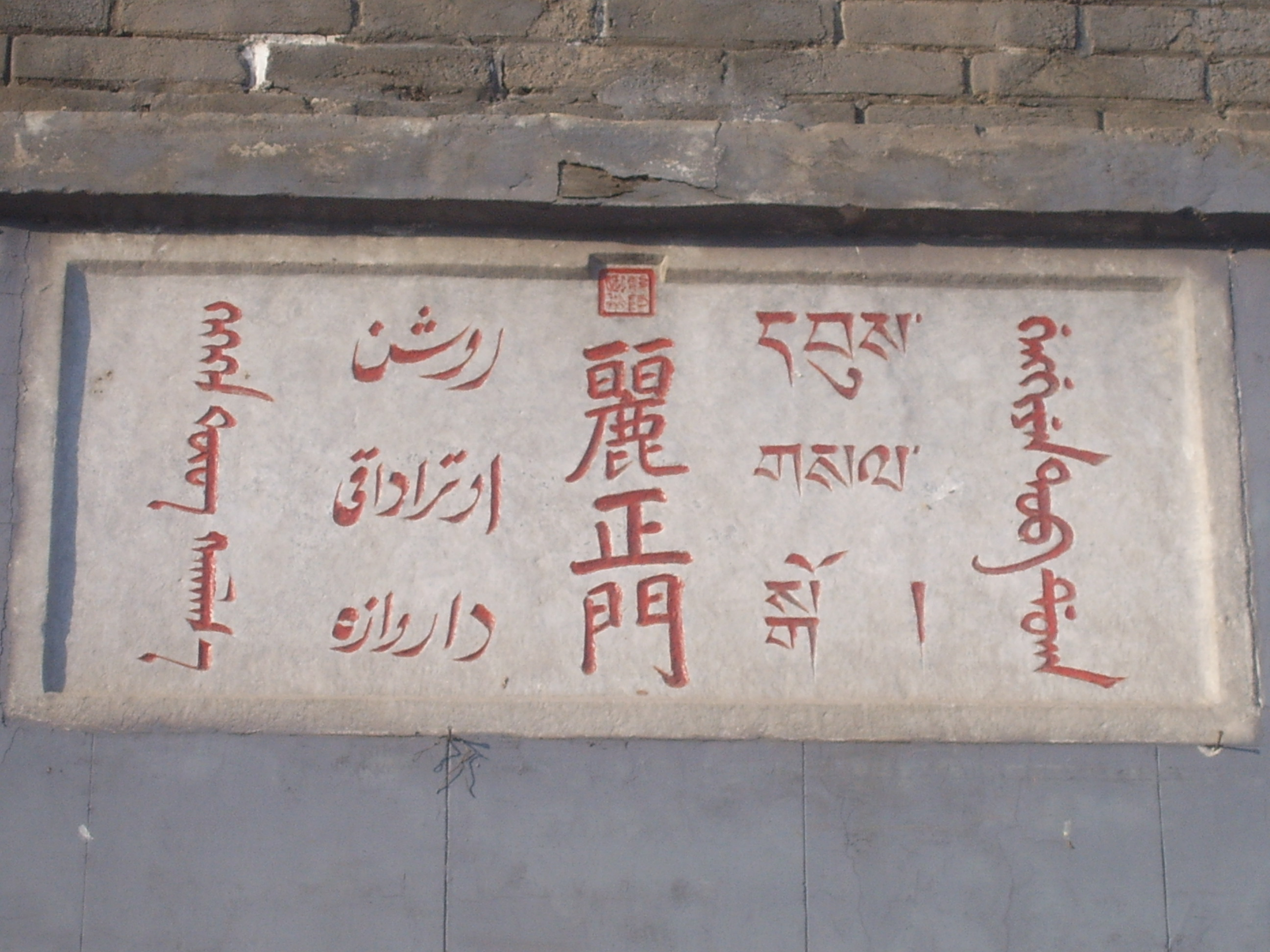 Qing dynasty languages on a sign at the summer palace in Résidence de montagne de Chengde; from left to right : Mongolian, Chagatai, Chinese, Tibetan, Manchu (丽正门 / 麗正門 / Lì zhèng mén / Gate of Beauty and Rightousness / Porte de la Beauté et de la Justice) or sometimes (大南门 / 大南門 / Dà nán mén / Greater south gate / Grande porte du Sud) - location